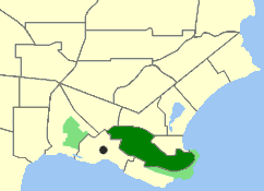 Map of the suburb of Mount Clarence in Albany, Western Australia.